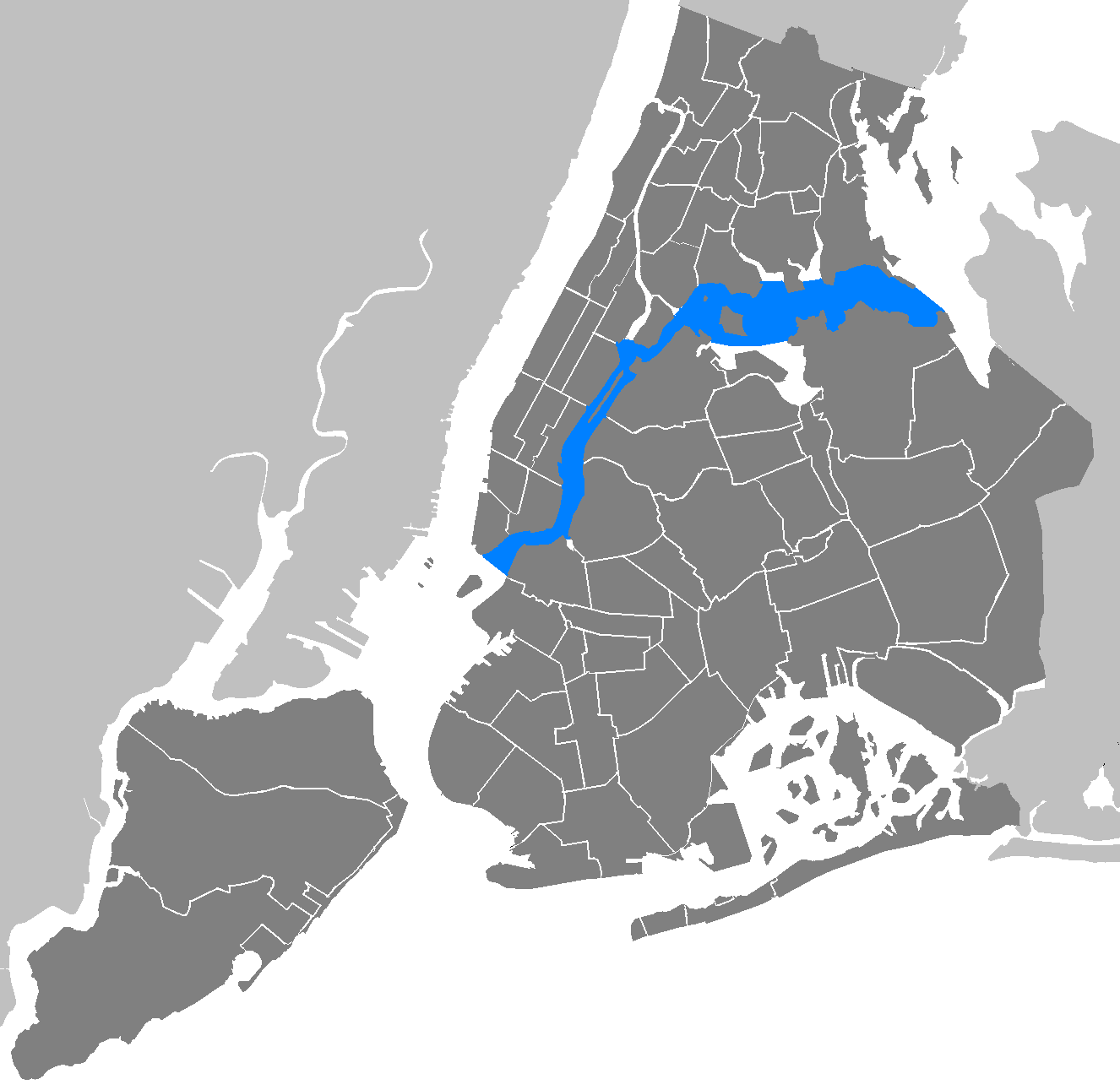 Maps of New York City: New York City - Manhattan - Harlem River.PNG